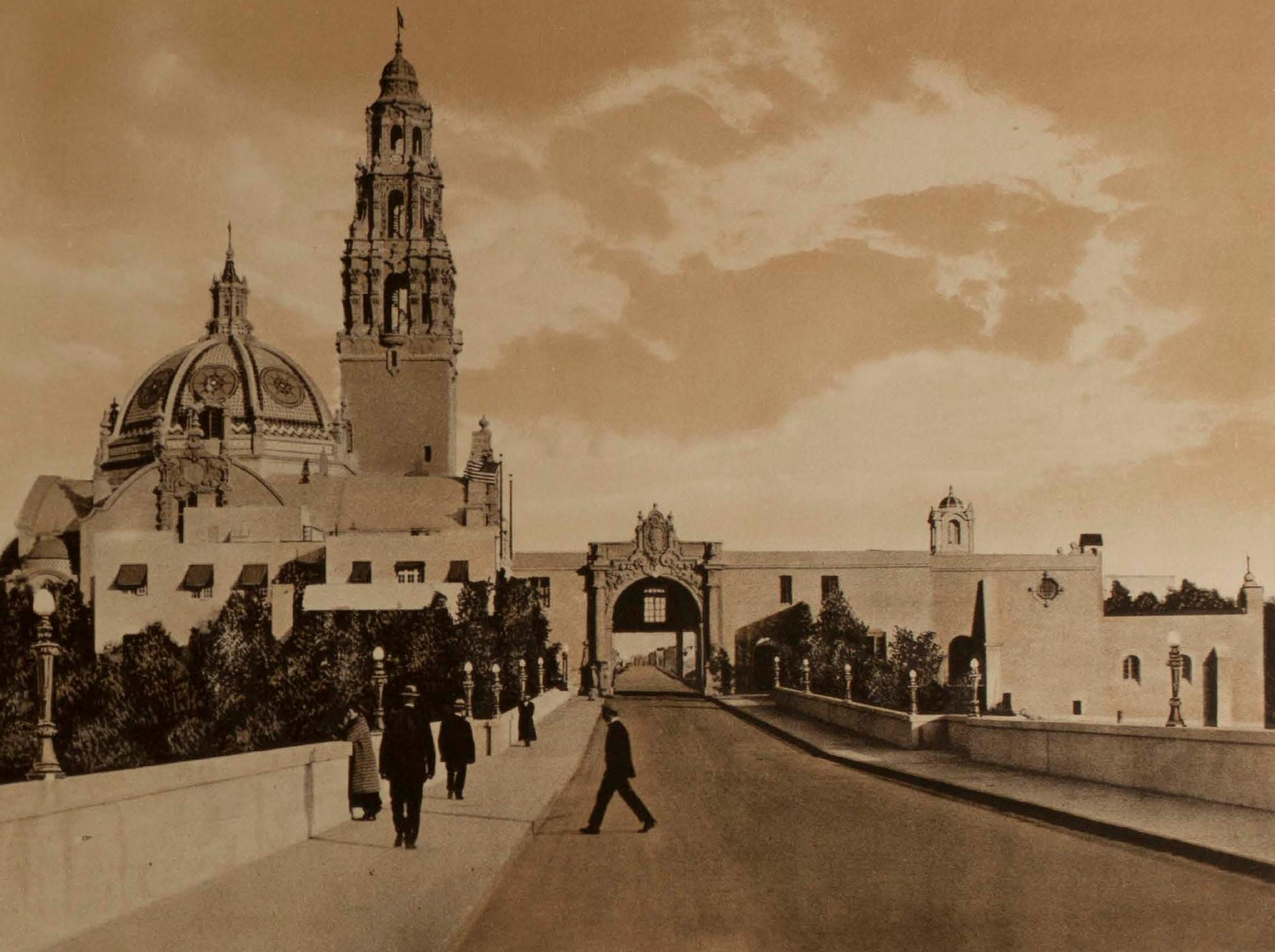 Promotional image of the West Gate of Balboa Park for marketing the 1915 Panama-California Exposition in San Diego, California.